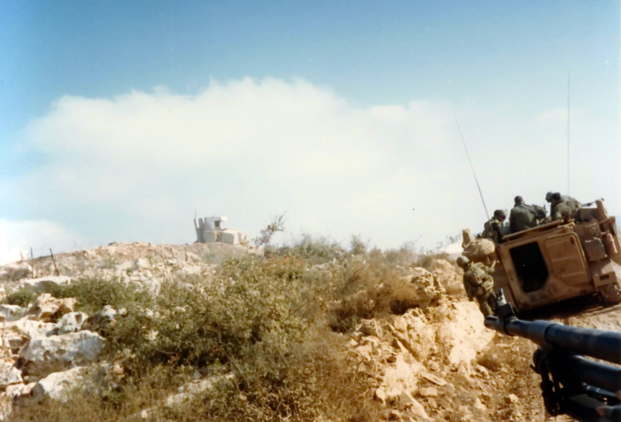 חיילי צה"ל על הנגמ"שים לאחר מסירת מוצב צד"ל מוצב בירכת חוקבן לכוחות ליוניפי"ל בשנת 1987 .משמאל רואים את העמדה הדרומית של המוצב שחלשה על כביש הגישה למוצב